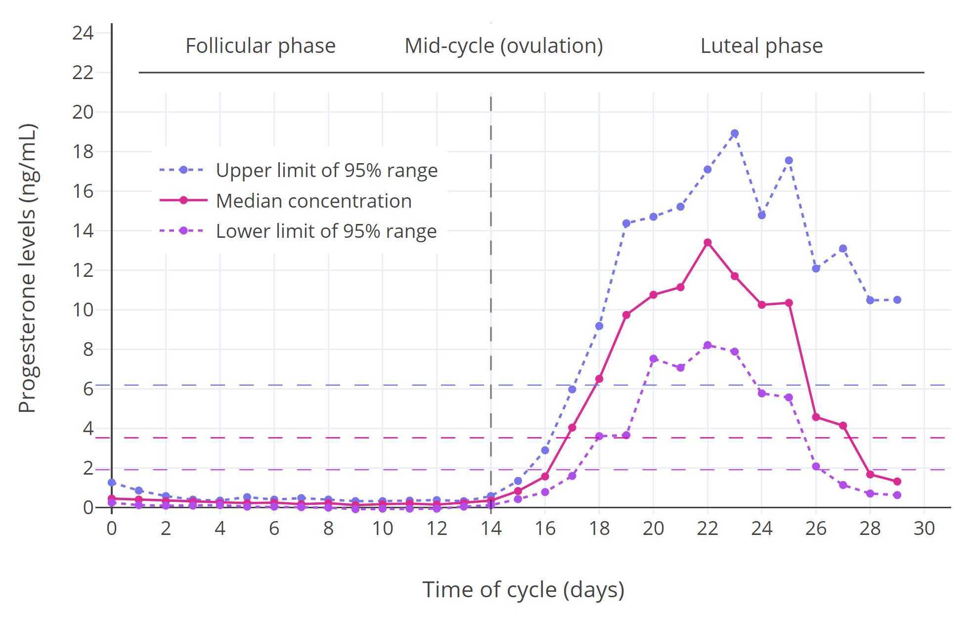 Progesterone levels across the menstrual cycle in normally cycling and ovulatory premenopausal women. The horizontal lines are the mean integrated values for each curve. The vertical line is mid-cycle. Source of the values: (2006). "Establishment of detailed reference values for luteinizing hormone, follicle stimulating hormone, estradiol, and progesterone during different phases of the menstrual cycle on the Abbott ARCHITECT analyzer". Clin. Chem. Lab. Med. 44 (7): 883–7. PMID 16776638.